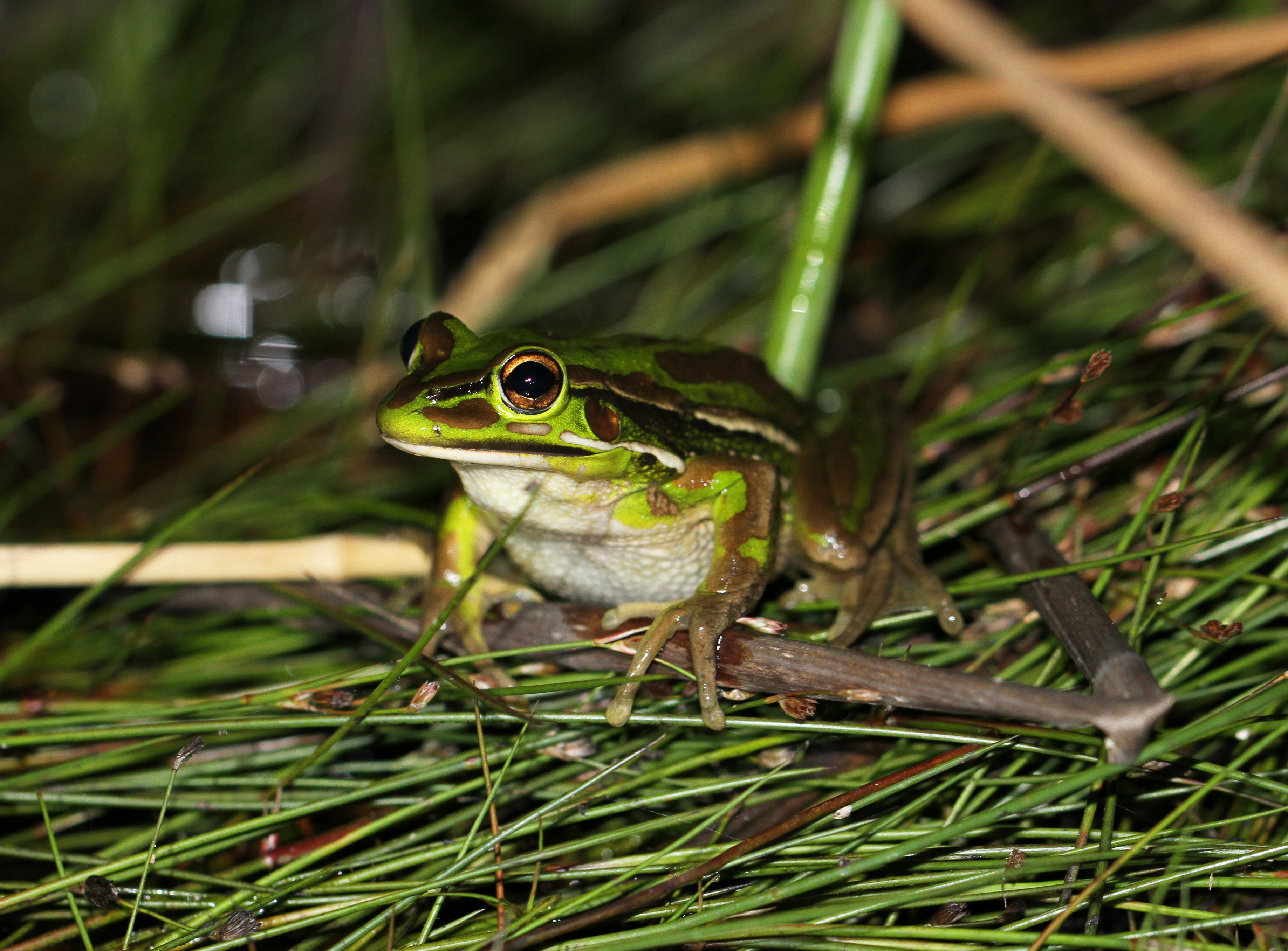 East Gippsland, Vic.